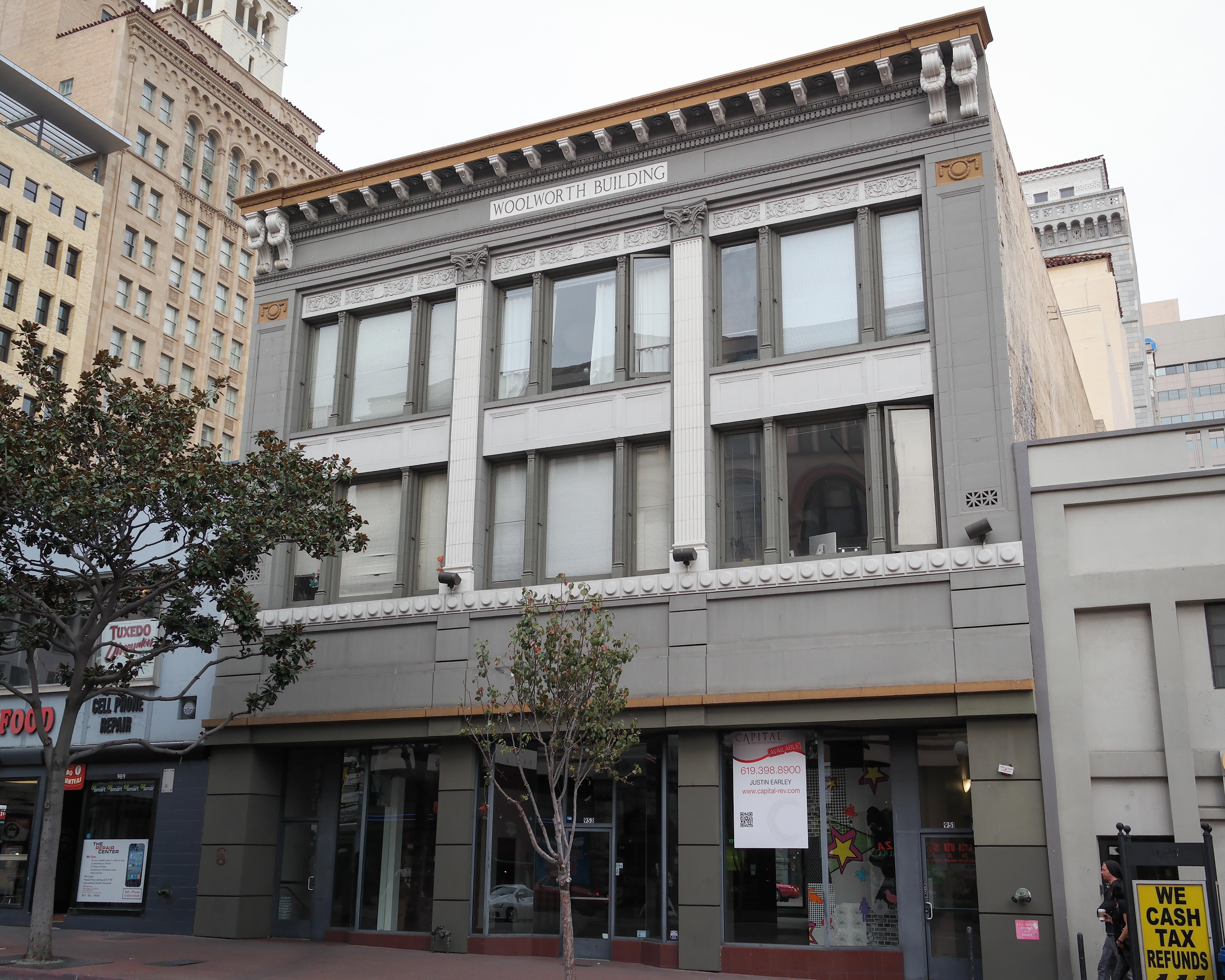 Historic Building Survey plaque: "23 Woolworth Building, 1886. Originally Victorian in its architecture, this brick with wood frame building was used for retail stores on the first floor, offices on the second, and furnished rooms on the third. In 1922, Frank W. Woolworth, founder of the five-and-dime stores, had the building remodeled. The original Victorian bat windows were removed, and four Corinthian pilasters were added to a gray granite facade. Woolworth leased the structure for 50 years."